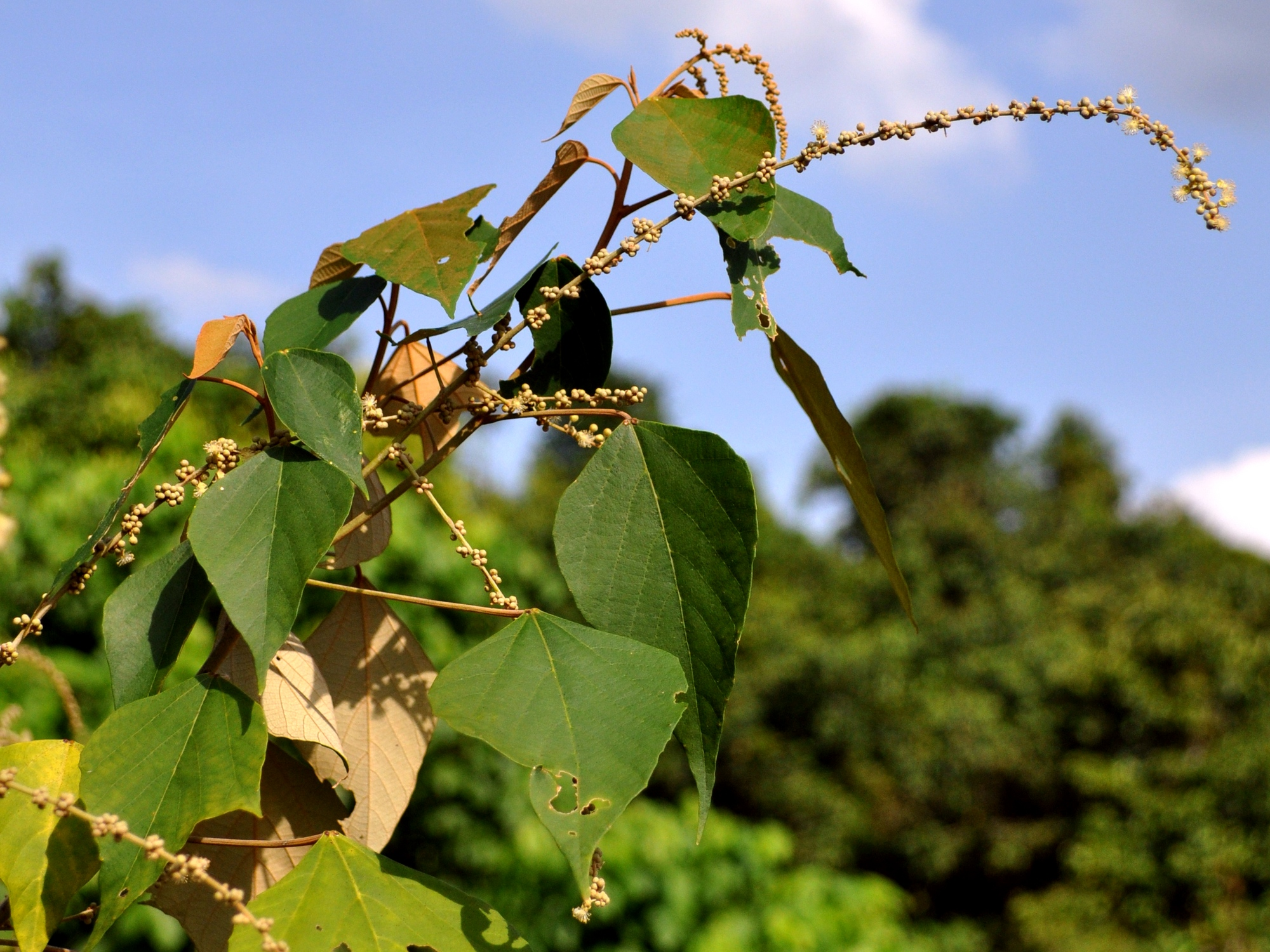 Mallotus paniculatus; staminate panicles and leaves. From West Kalimantan, Indonesia.